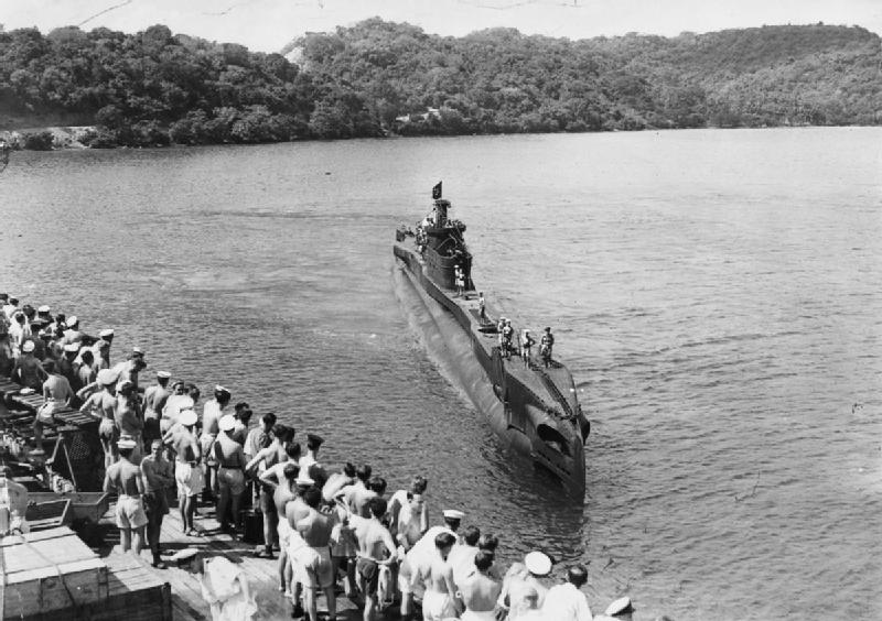 IWM caption : Back from a successful patrol in Far Eastern waters, HMSM TEMPLAR arrives at the depot ship at Colombo, Ceylon.